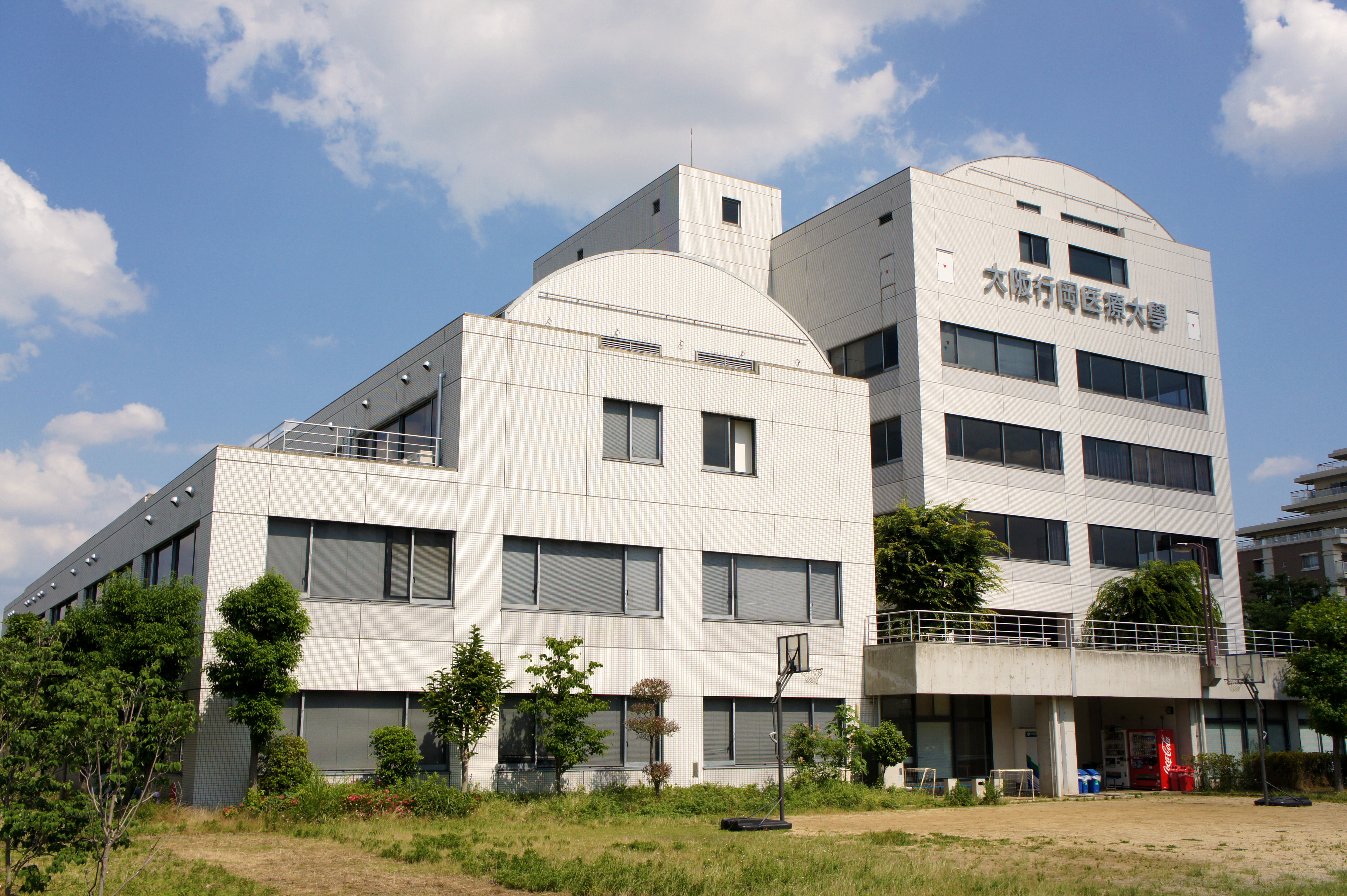 YOsaka Yukioka College of Health Science, 1-1-41 Sojiji Ibaraki-City Osaka Japan.